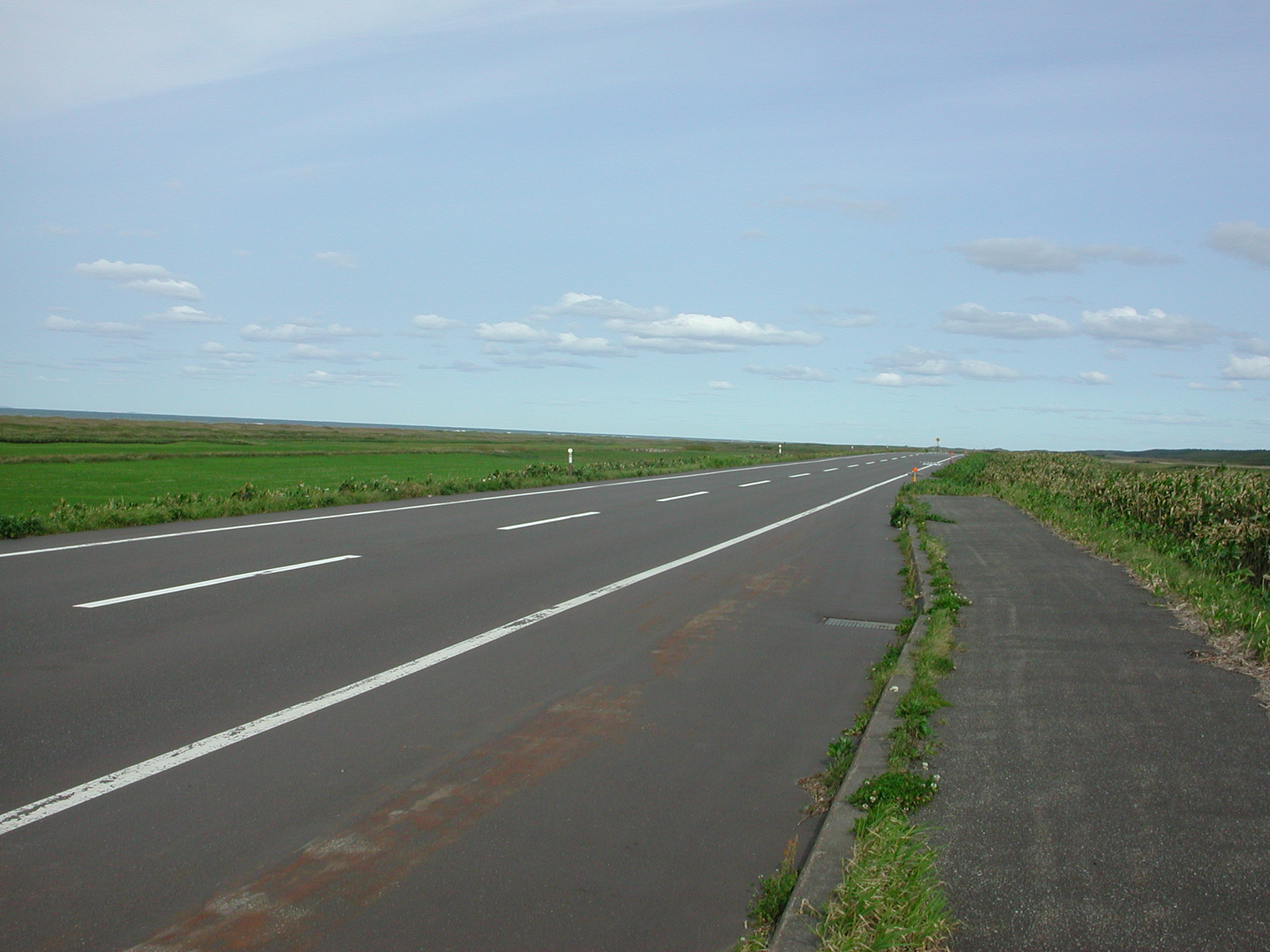 The Hokkaido Prefectural Road Route 106 in Horonobe Town